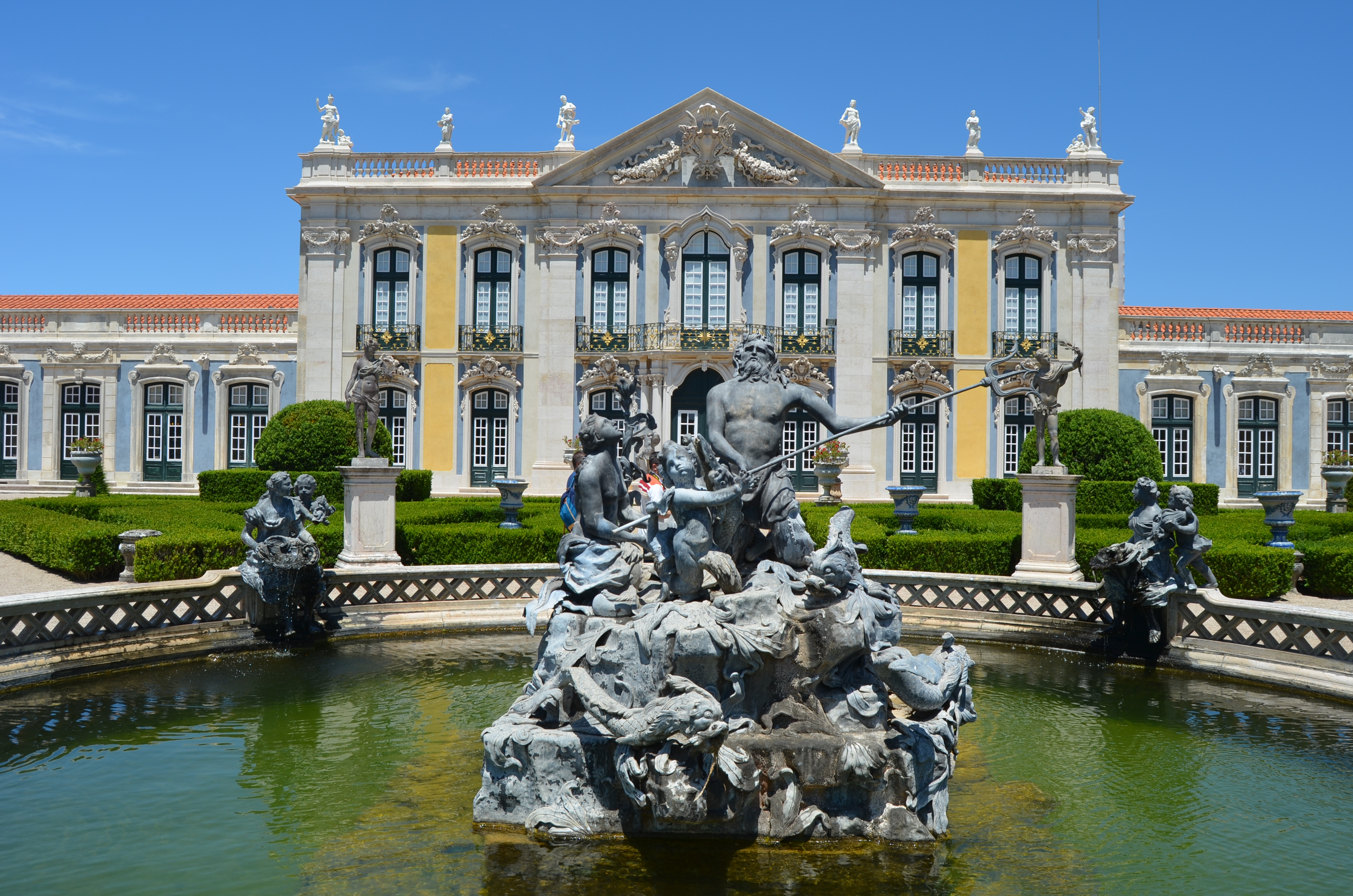 Neptune's glory